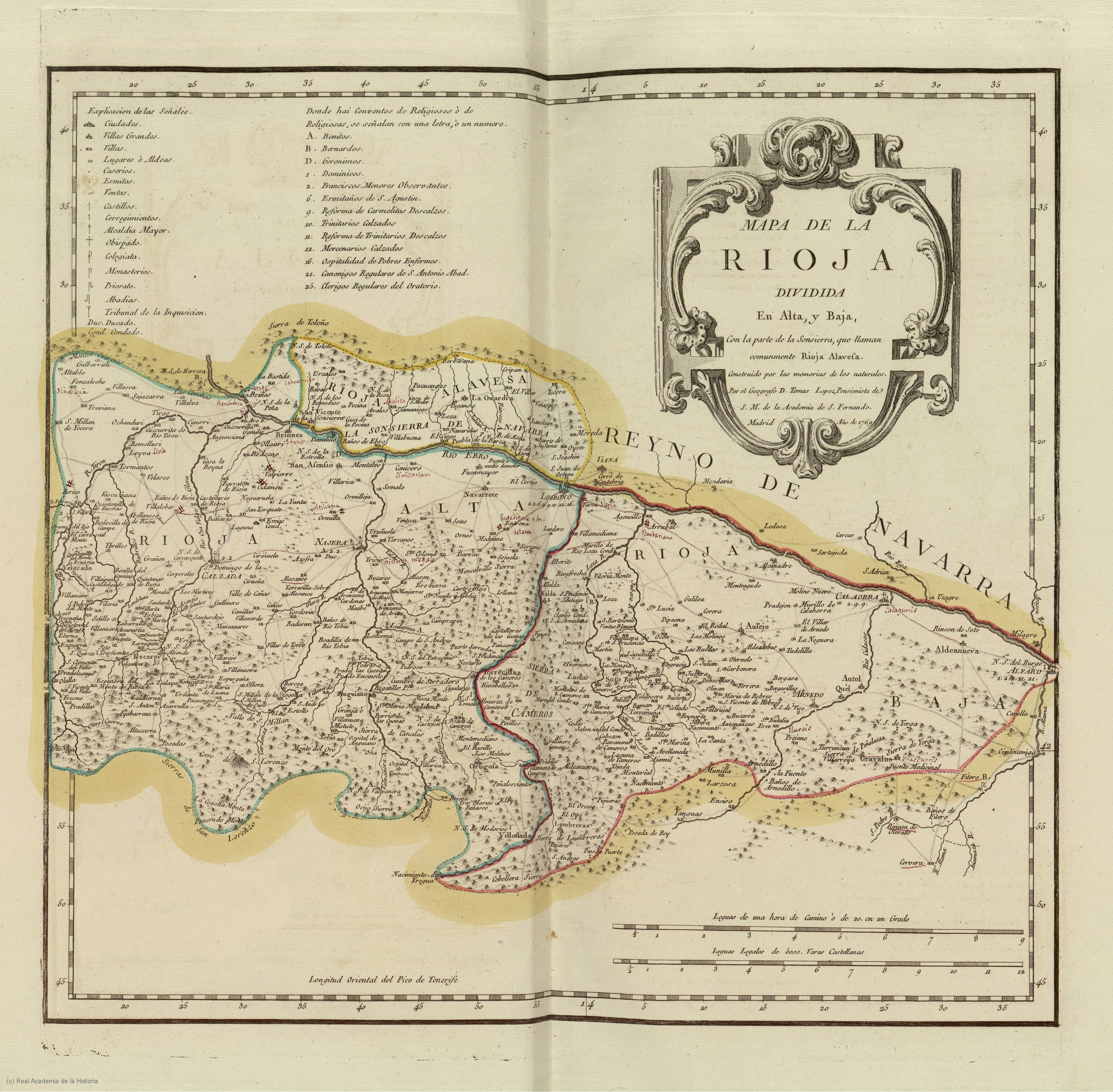 Map of La Rioja region (Spain) divided in two parts, Upper Rioja and Lower Rioja, made by Tomás López de Vargas in the year 1769